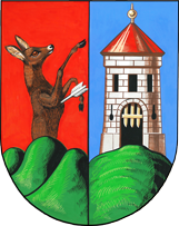 coat of arms Semriach, Styria, Austria